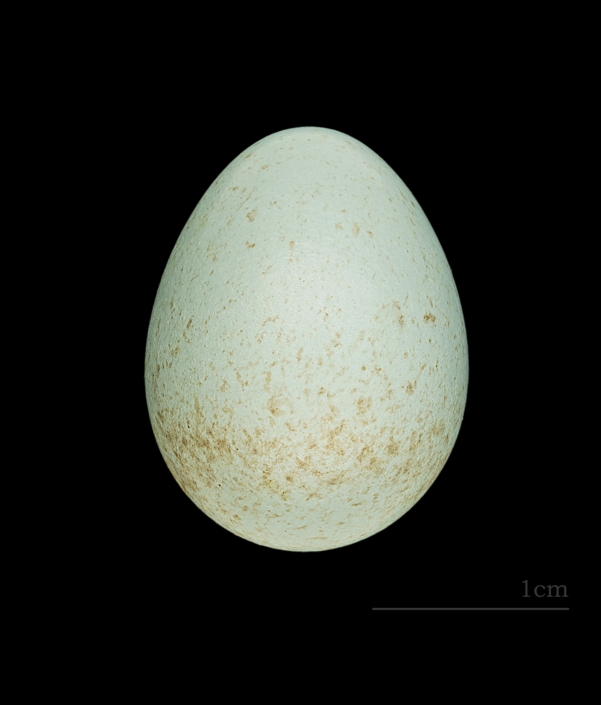 Egg of Desert Wheatear. Collection of Jacques Perrin de Brichambaut.